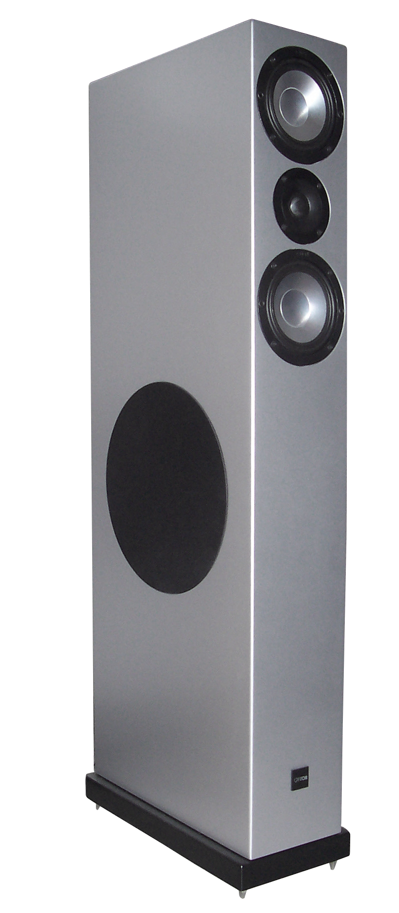 Loudspeaker, 3,5-Ways, Canton Karat 770